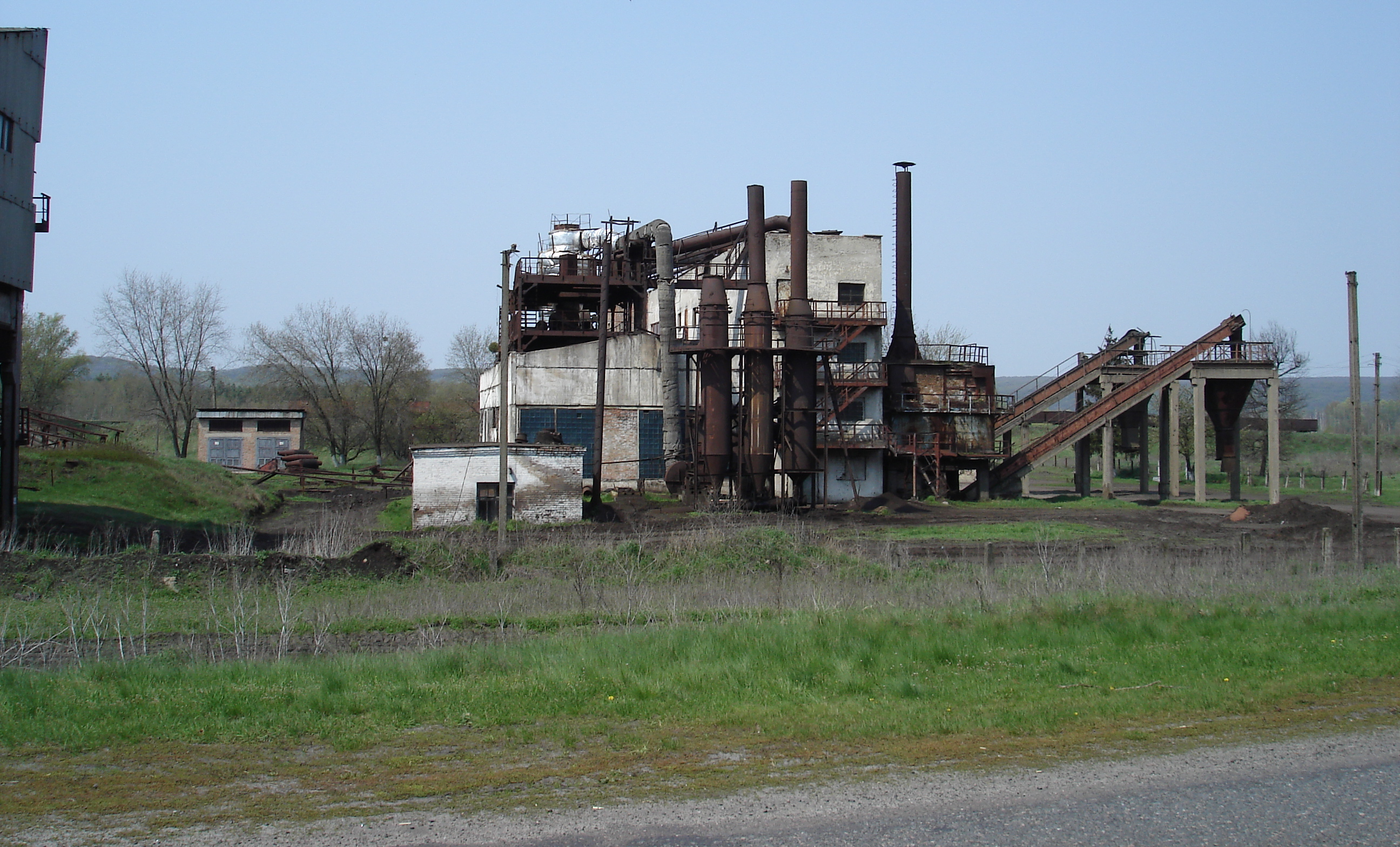 peat plant, Irdyn swampland